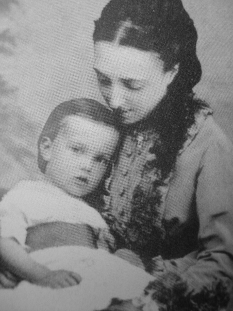 Grand Duke Sergei Mikhailovich of Russia with his mother